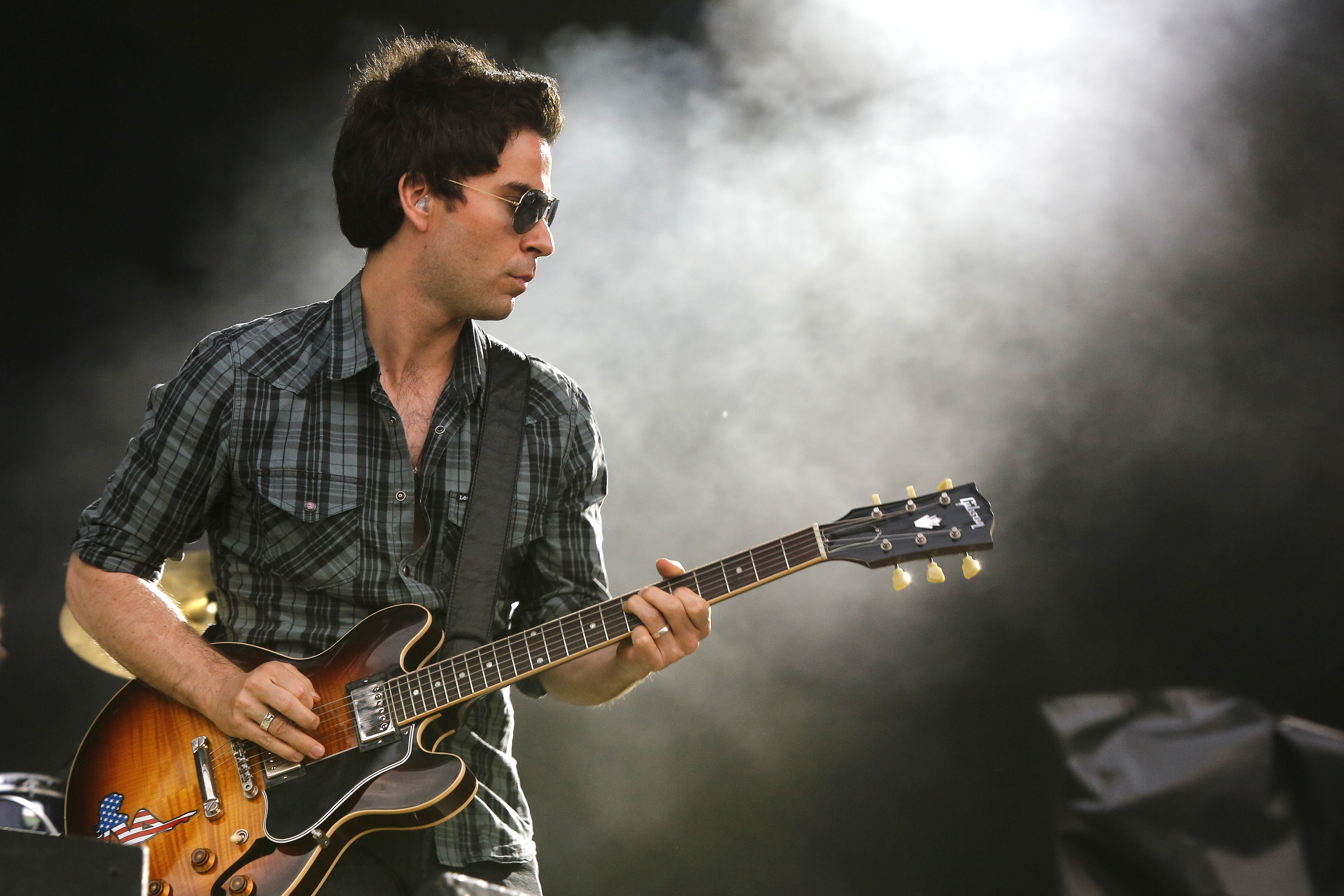 Kelly Jones, singer and guitarist of Welsh band Stereophonics at Nova Rock-Festival 2013.